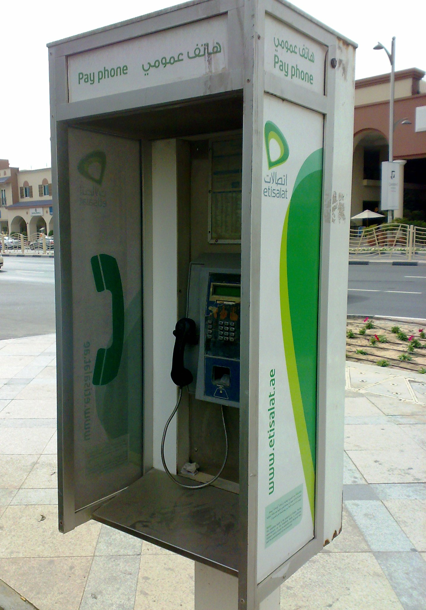 Image of an Etisalat telephone cell in Dubai, UAE